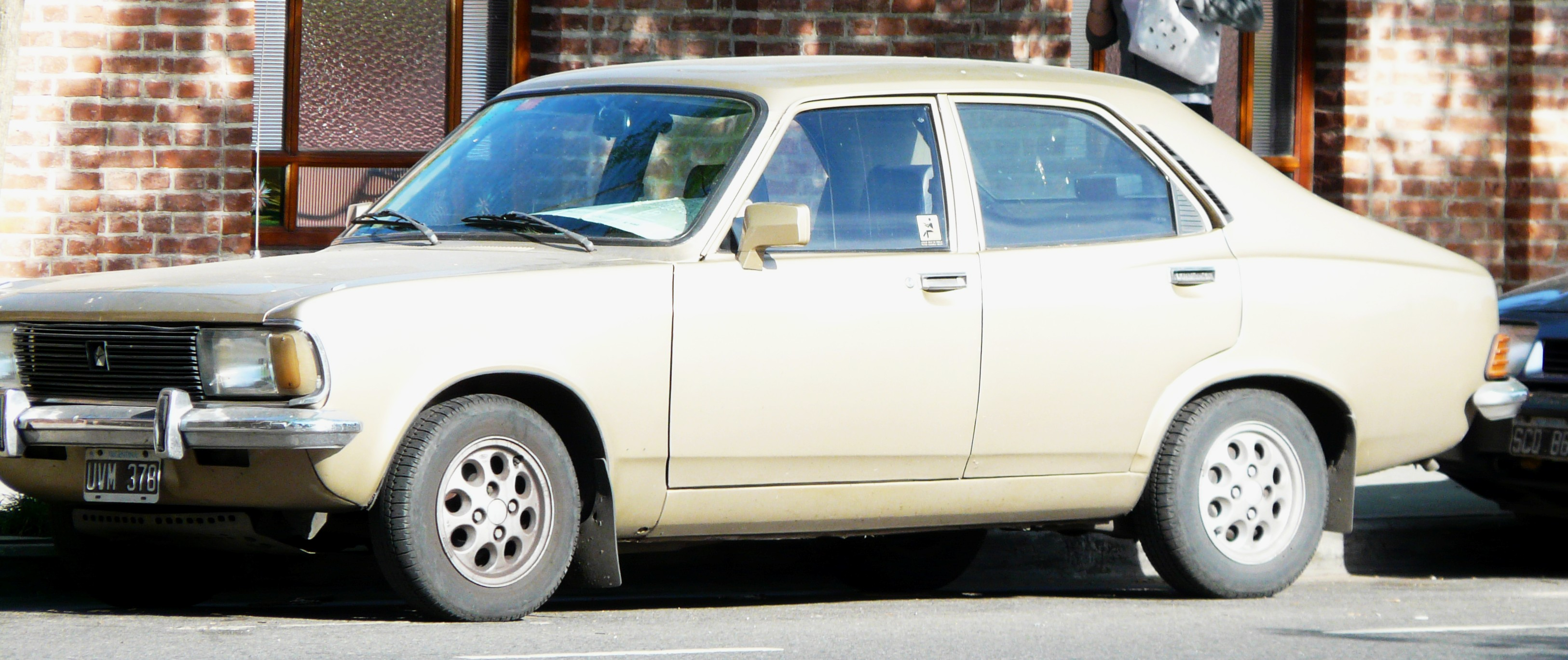 Dodge 1500 (1977-1980 model), Buenos Aires, Argentina, November 2008.